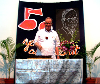 Cyril Desbruslais with at DNC on the celebration of his 50 years a Jesuit.